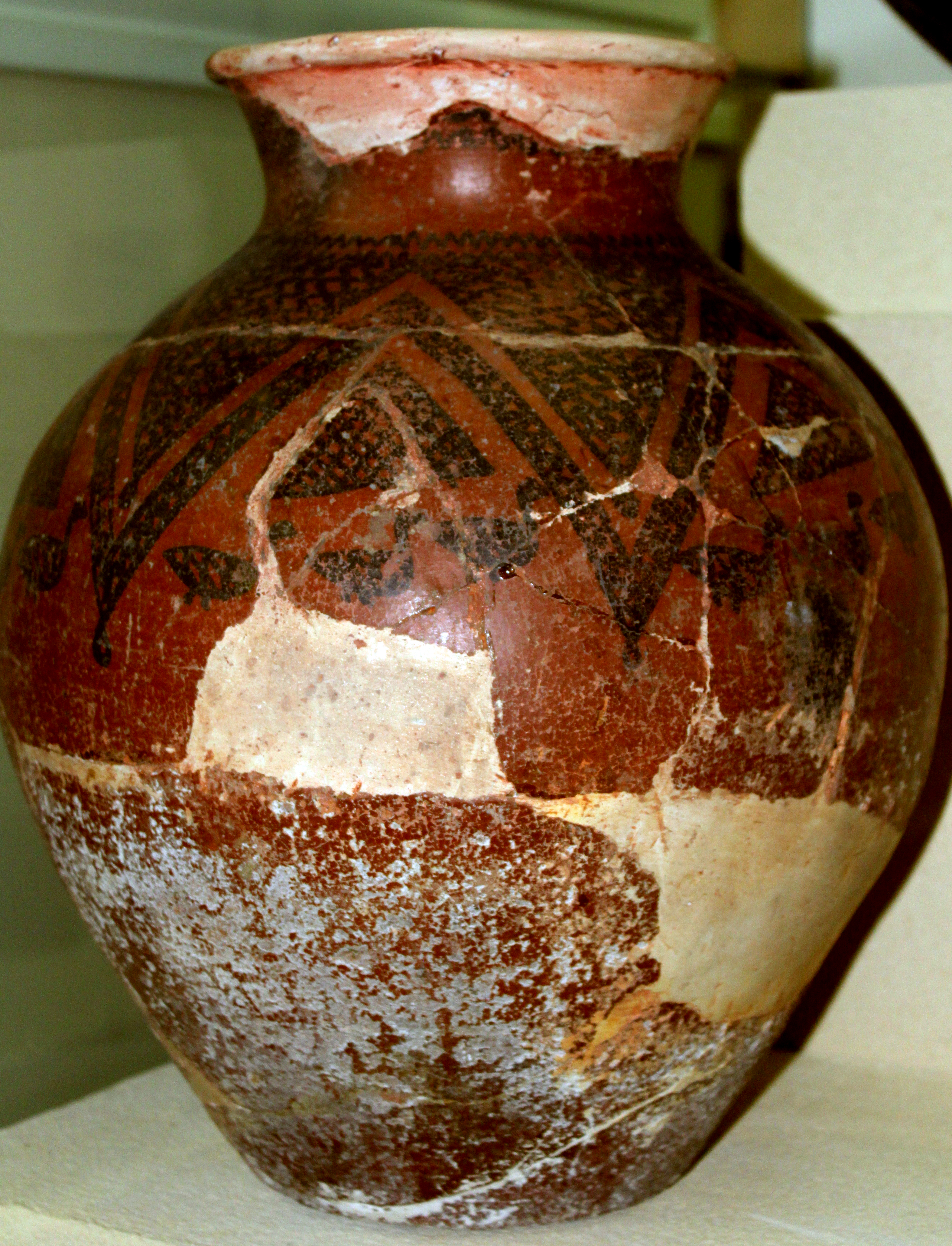 Boyalı saxsı qab, II Kültəpə, Boyalı Qablar mədəniyyəti